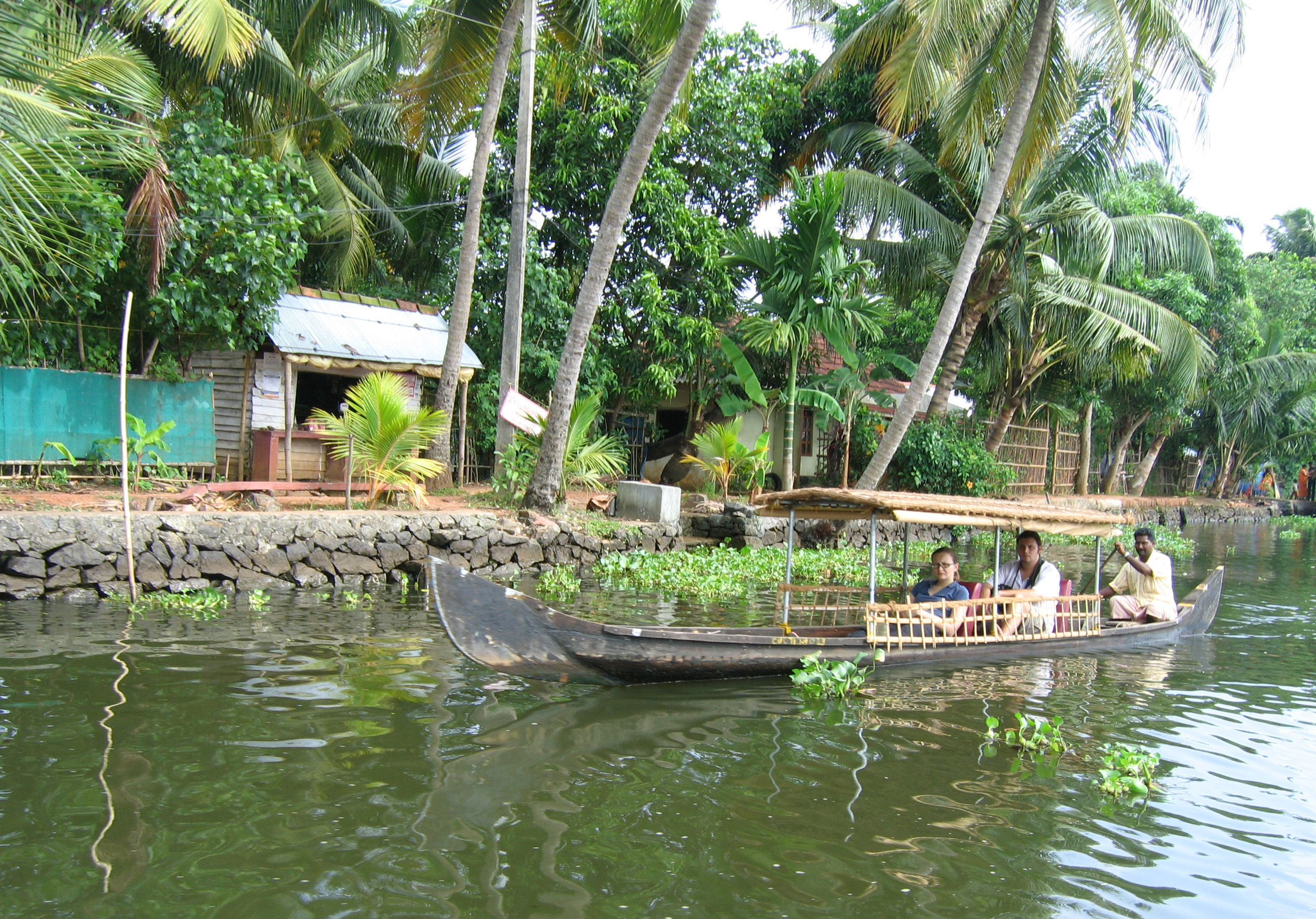 Scenes fom Vembanad lake en route Alappuzha Kottayam, ആലപ്പുഴയില്‍ നിന്ന് കോട്ടയത്തിനു പോവുംപോഴുള്ള വേമ്പനാട്ടുകായലിലെ കാഴ്ച്ചകള്‍